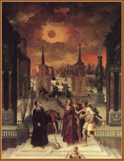 The original title is not known; alternate titles include "Astronomers watching a solar eclipse" and "Astronomers (or Astrologers) Studying an Eclipse."